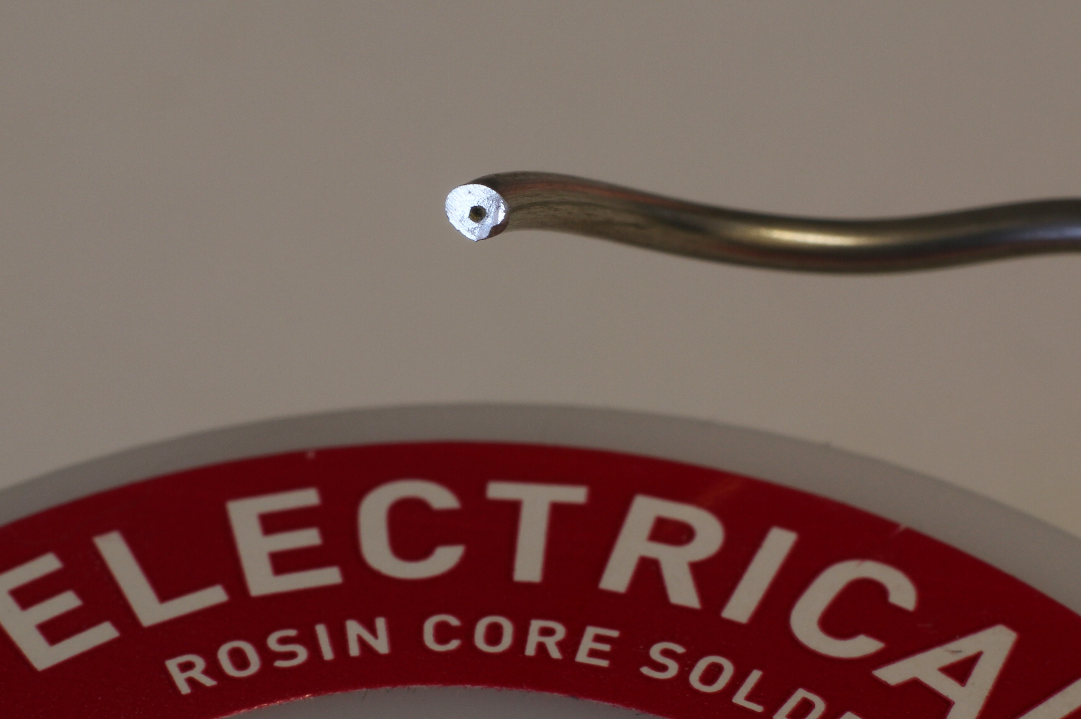 A spool of solder. The cut end shows a core (dark spot) of rosin flux. This is an updated version of File:Rosin core solder.JPG, taken with extension tubes (21mm extension tube behind a 50mm lens) to give a closer view of the flux core.